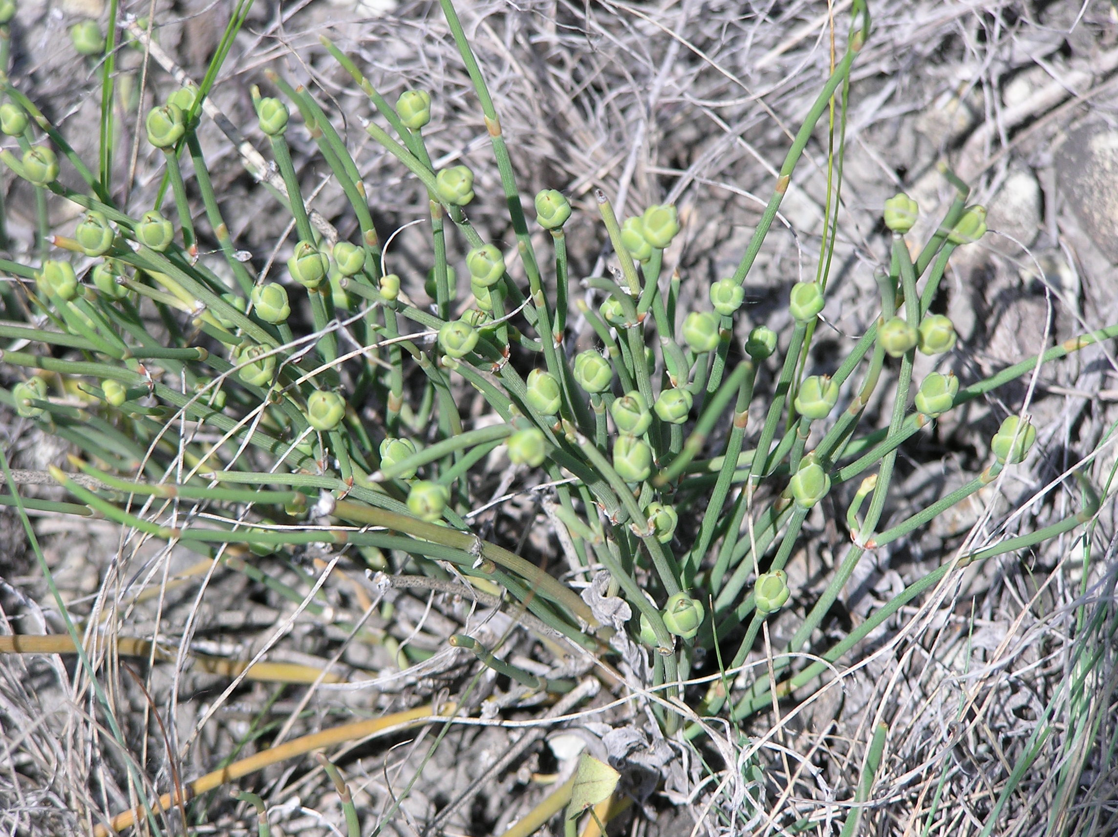 Ephedra distachya (L.), female plant in bloom. Habitat: southern chalk slope. Vicinity of Saratov city, Russia.